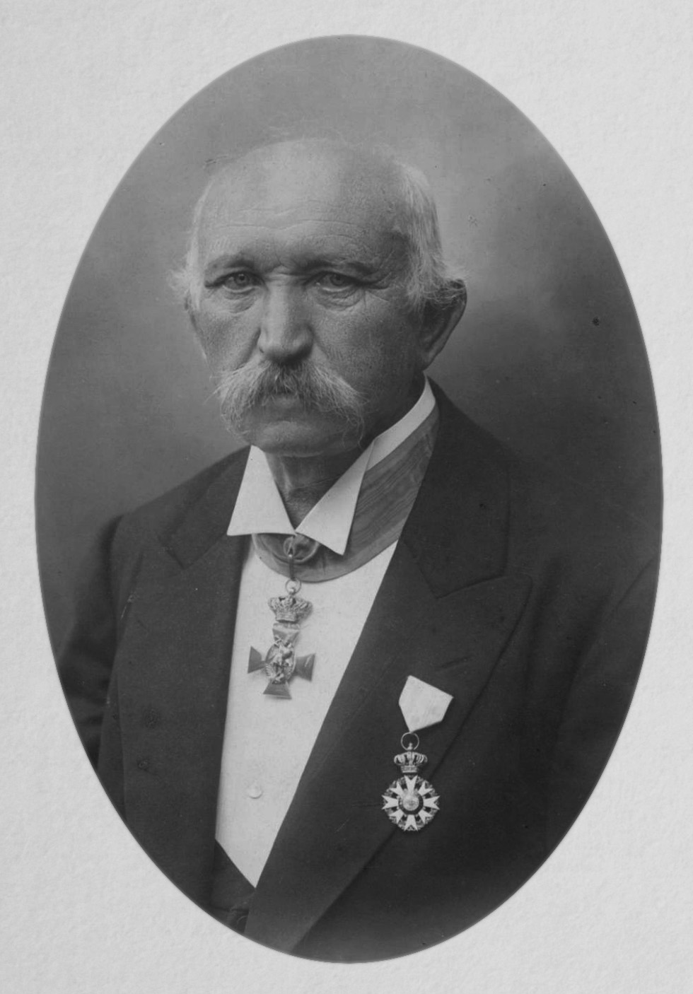 An image in later life